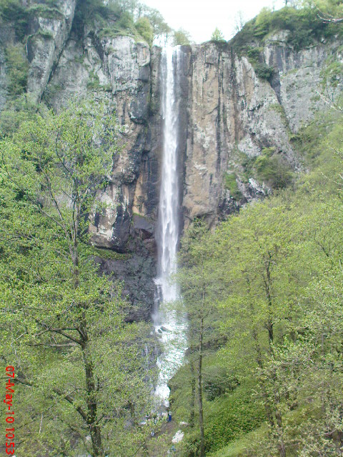 Laton waterfall , Iran's largest waterfall in the Astara city (105 meter)